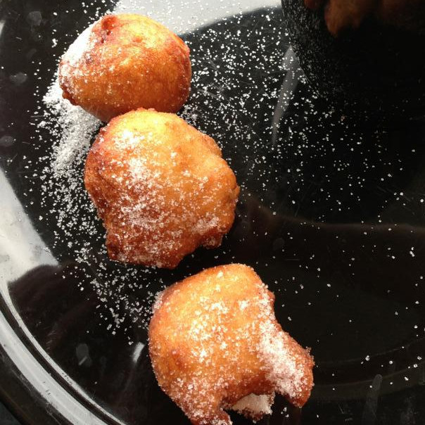 Puff-puff, African doughnuts